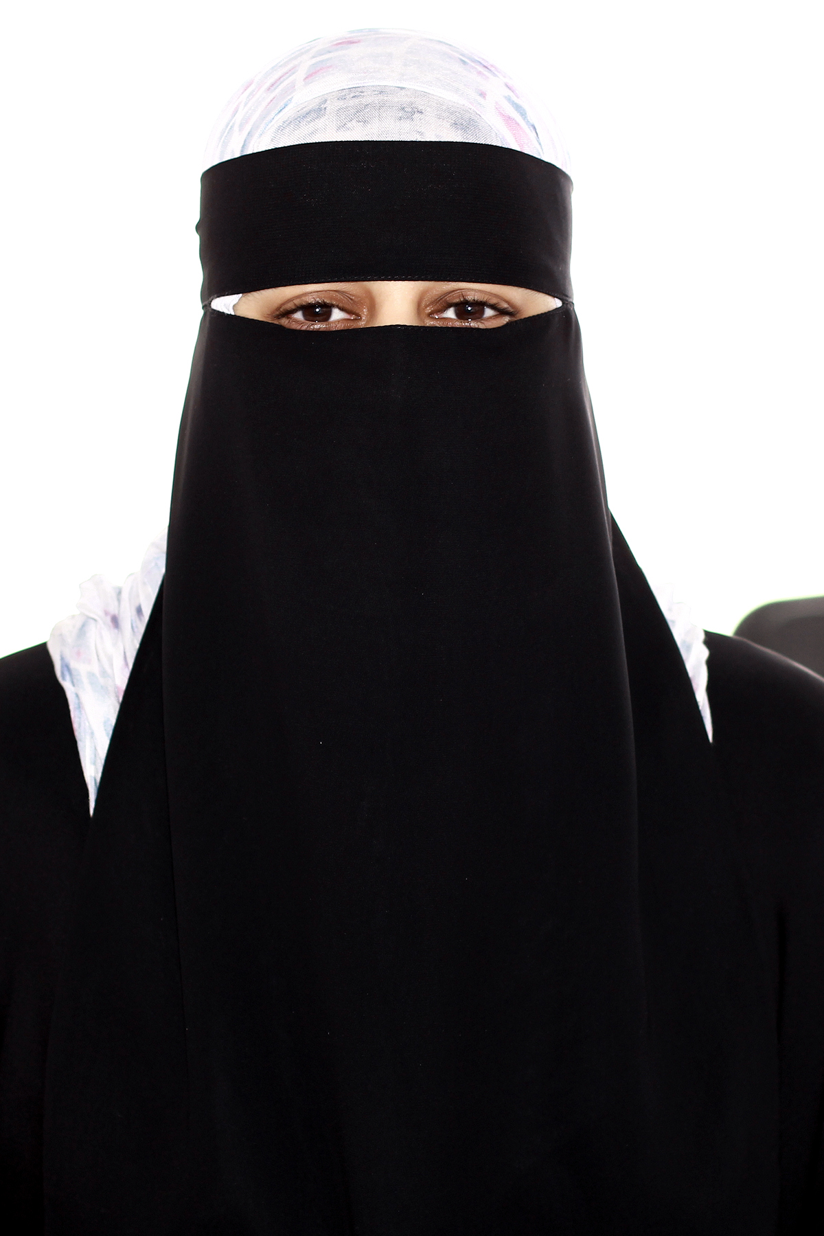 Author Hafsah Faizal at the 2019 Texas Book Festival in Austin, Texas, United States.